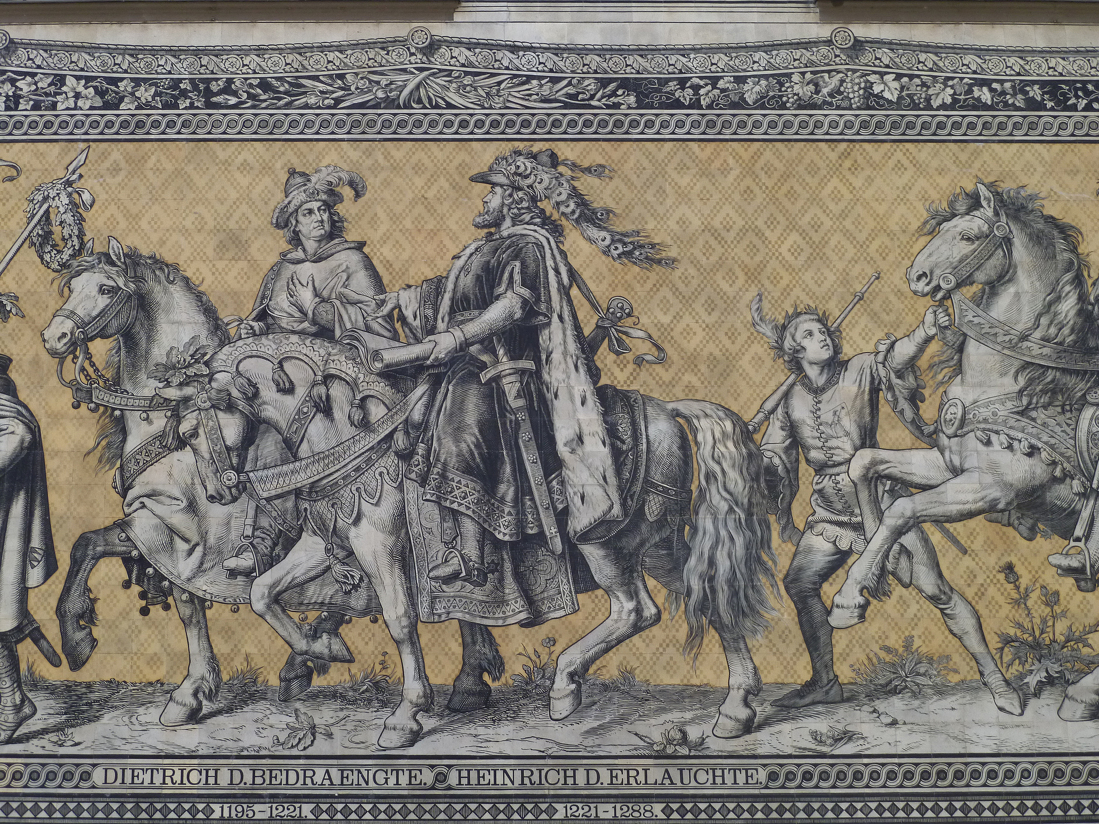 Dietrich I, Margrave of Meissen (1195–1221) and Henry III, Margrave of Meissen (1221–1288); Fürstenzug, Dresden, Germany